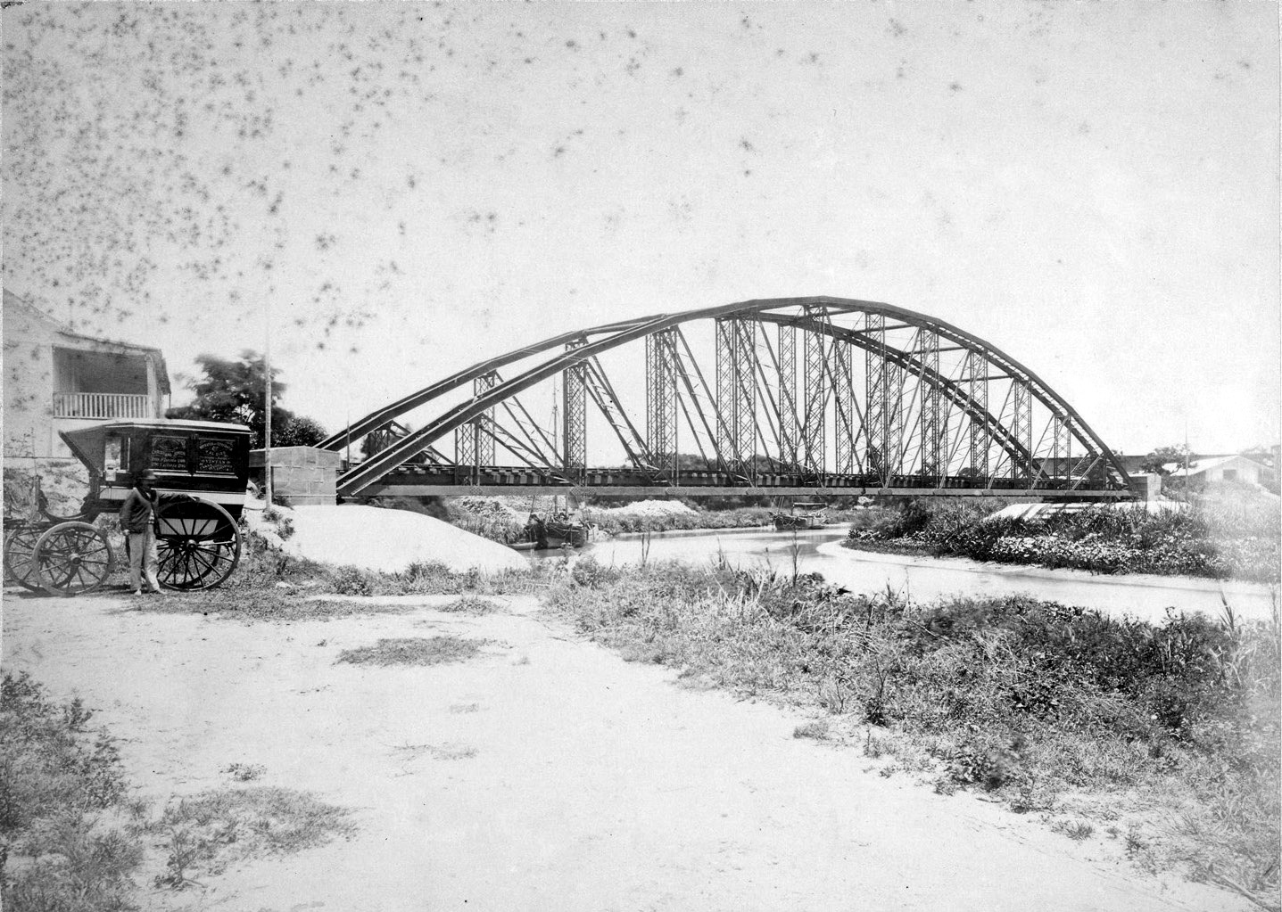 The railway bridge that allowed trains to cross over the Riachuelo, built and operated by the Buenos Aires and Ensenada Port Railway.[1]